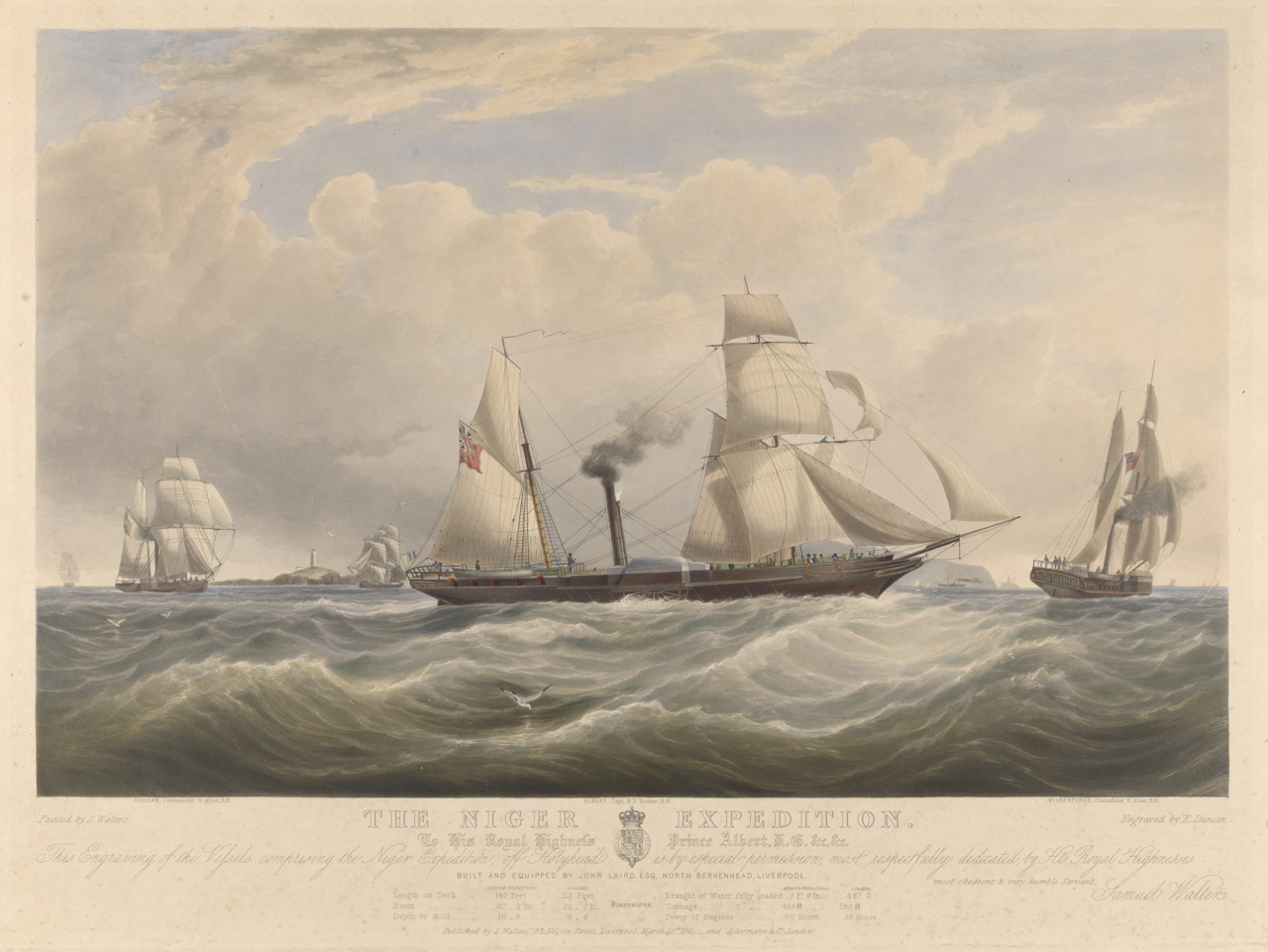 The Niger Expedition... off Holyhead... Aug-Oct 1841. HMS Albert also shows Sudan and Wiberforce This print depicts the paddle troopship 'Albert', which formed part of the Niger expedition of 1841, along with 'Soudan', on the left, and 'Wilberforce', to the right . The expedition was mounted by British missionary and activist groups in 1841-1842, using three British iron steam vessels to travel to Lokoja, at the confluence of the Niger River and Benue River, in what is now Nigeria. The British government backed the effort to make treaties with the native peoples, introduce Christianity and promote increased trade. The dimensions of the three vessels are given and they are named from left to right: 'Soudan, Commander B. Allen R.N.', 'Albert, Capt. H.D. Trotter R. N.', 'Wilberforce, Commander W. Allen, R.N.' The print is inscribed: 'The Niger Expedition. To His Royal Highness Prince Albert K.G. &c. This Engraving of the Vessels comprising the Niger Expedition, off Holyhead is by especial permission, most respectfully dedicated by His Royal Highnesses most obedient and humble Servant, Samuel Walters. Built and equipped by John Laird Esq. North Birkenhead, Liverpool.' Hand-coloured.; medium includes gum arabic. The Niger Expedition... off Holyhead... Aug-Oct 1841. HMS Albert also shows Sudan and Wiberforce